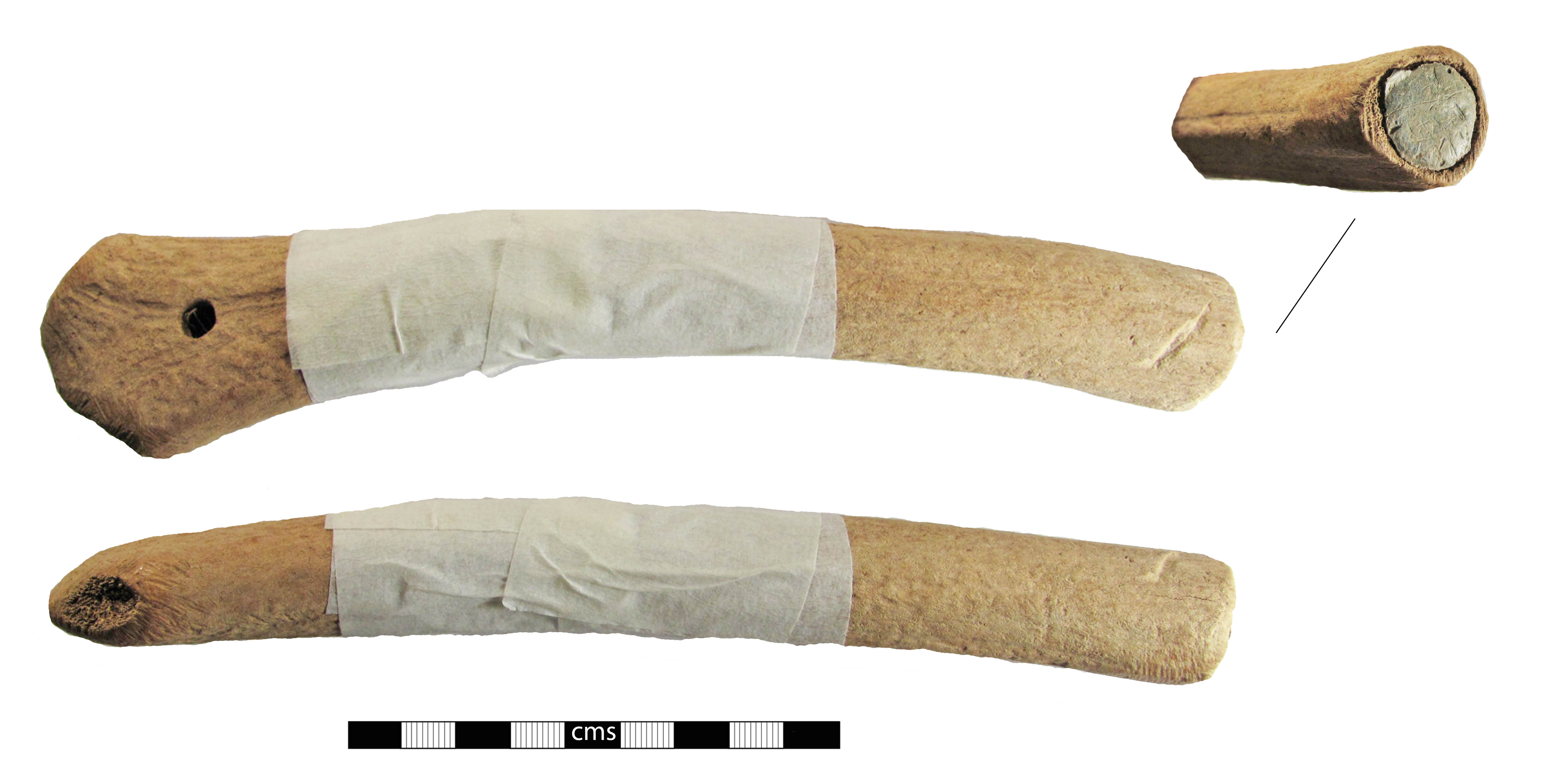 An antler and lead 'priest' of uncertain but probably modern date. A priest is an object used to kill fish by hitting them on the head. This example is made from a part of antler, possible Fallow or Red Deer (Priscilla Lange pers. comm. via emailed image). The antler has been pierced with a long rounded tool near the head (the widest section). The head of the antler has also been shaped to remove projecting sections, resulting in an almost pointed terminal end. The opposing end has been hollowed out and moltern lead has been poured into it, to form the weight with which the fish would be struck. In this example the antler has snapped in half and been taped back together by the finder.